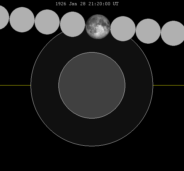 =lunar eclipse chart of moon's path through the earth's shadow. thumb